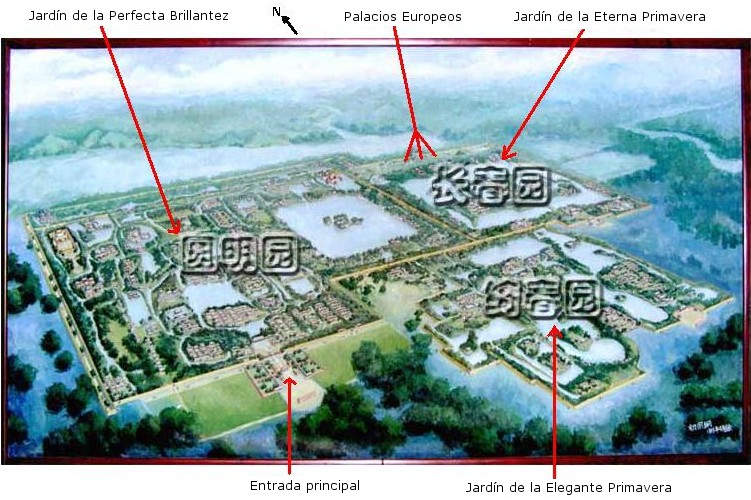 Plan of the grounds of the Yunamingyuan (Old Summer Palace) — in Beijing. Spanish version of a file already in Commons Yuamingyuan=.jpg